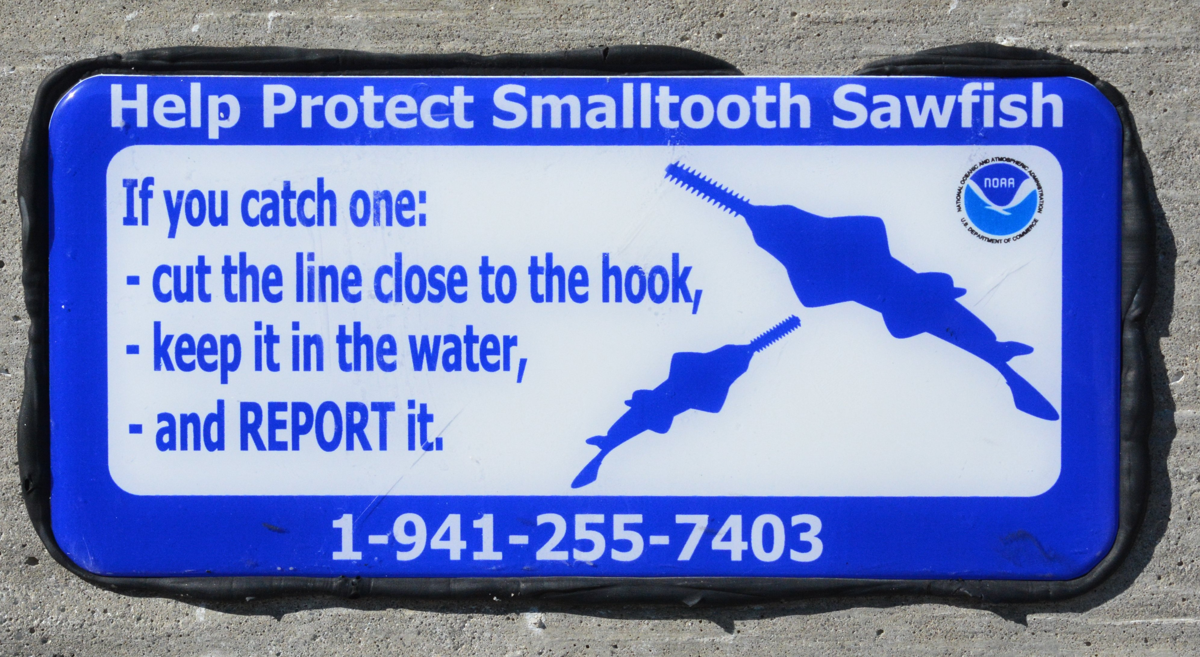 Sign for the protection of Smalltooth sawfish (Pristis pectinata), Sanibel Island, FL, USA